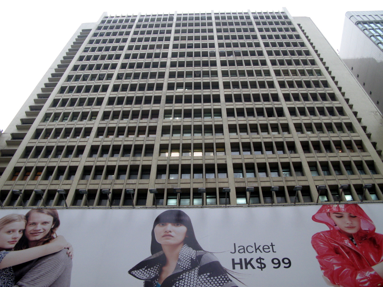 位於香港中環的連卡佛大廈 HK Crawford House in Central